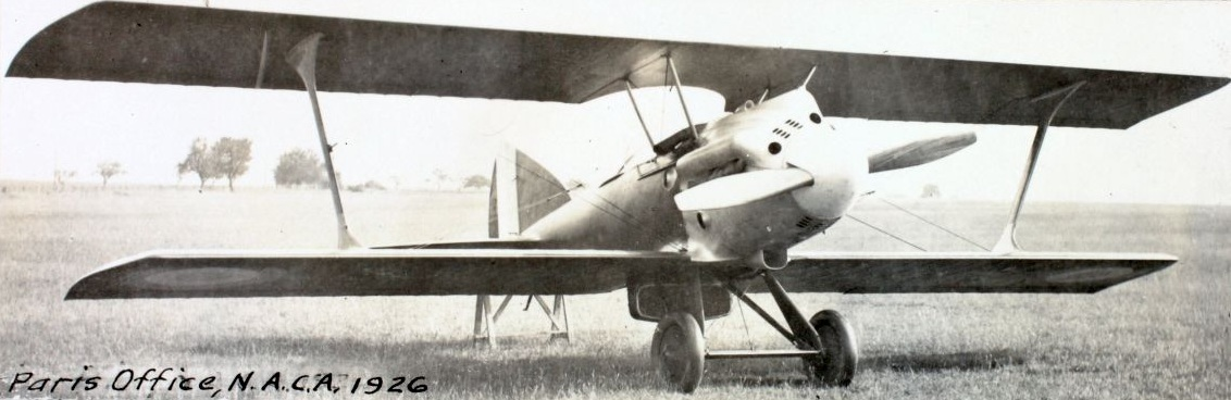 Bleriot Spad 61 height record aeroplane.